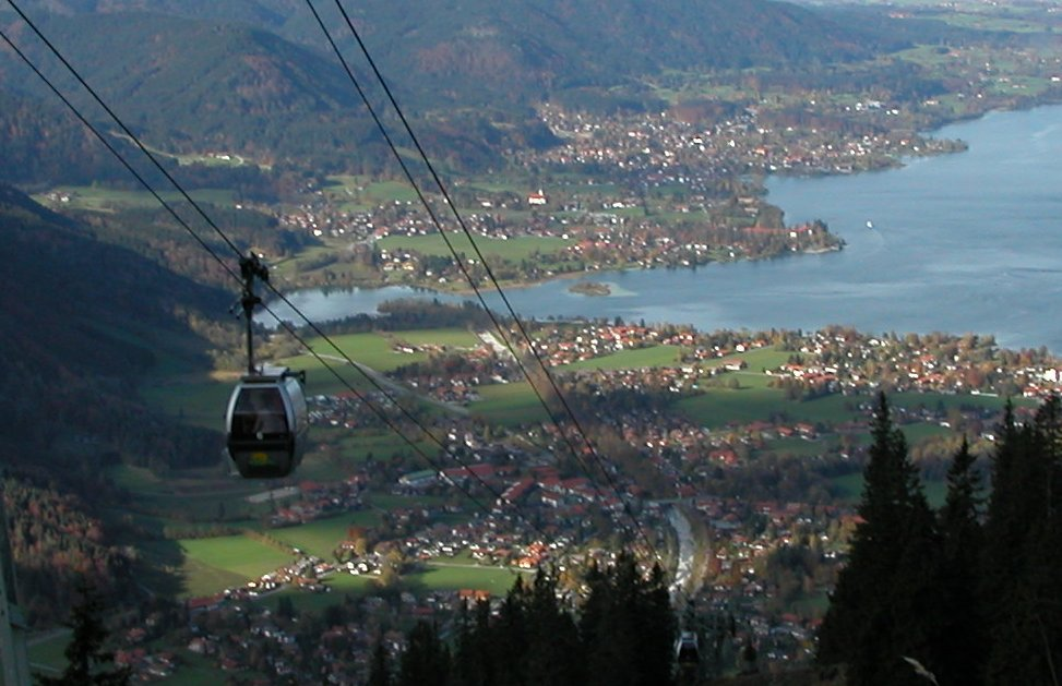 Photo of aerial tramway of Wallberg, Bavaria, with Tegernsee in the background.